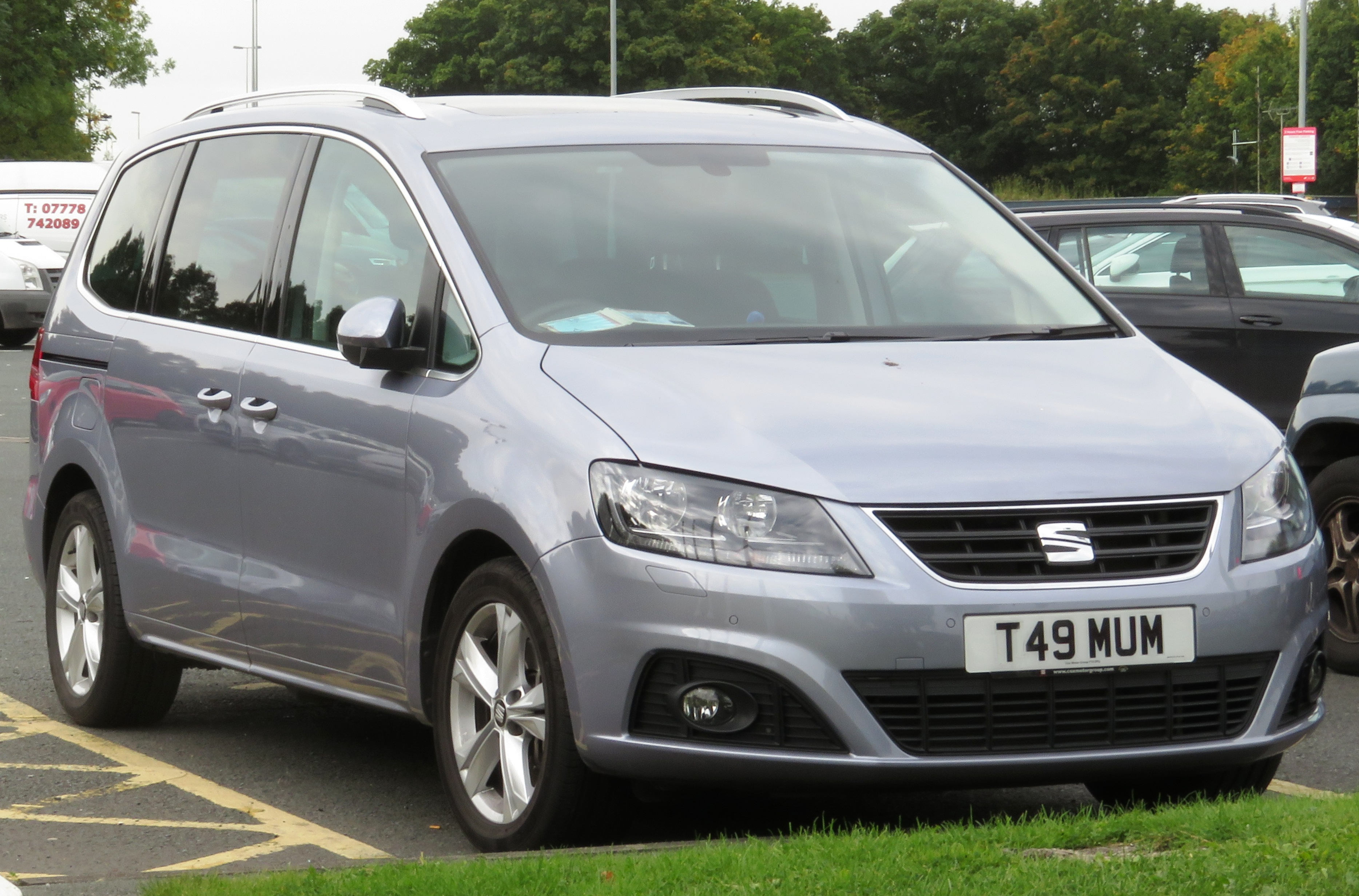 Seat Alhambra (2017) between Liverpool & Warrington (roughly) License plate has been changed for anonymisation purposes